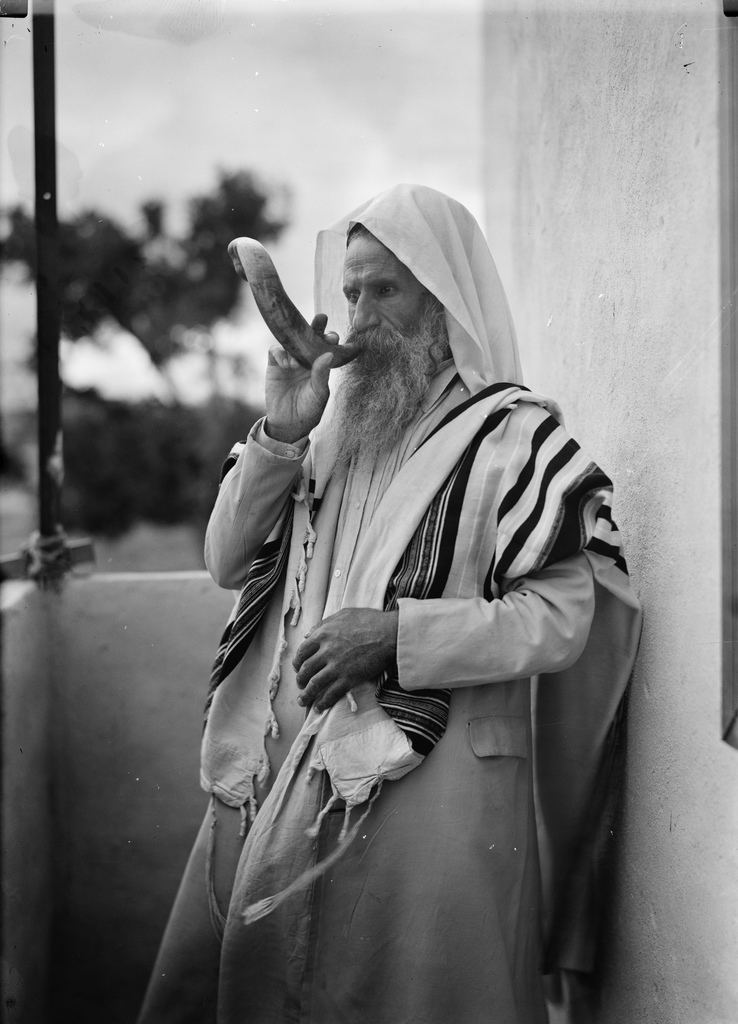 Shofar. Sabbath Horn. Yemenite Jew. Closer up. between 1934 and 1939] CALL NUMBER: LC-M32- 7135[P&P] REPRODUCTION NUMBER: LC-DIG-matpc-03283 (digital file from original photo) No known restrictions on publication. Matson Photo Service, photographer. Part of: G. Eric and Edith Matson Photograph Collection Library of Congress Prints and Photographs Division Washington, D.C. 20540 USA